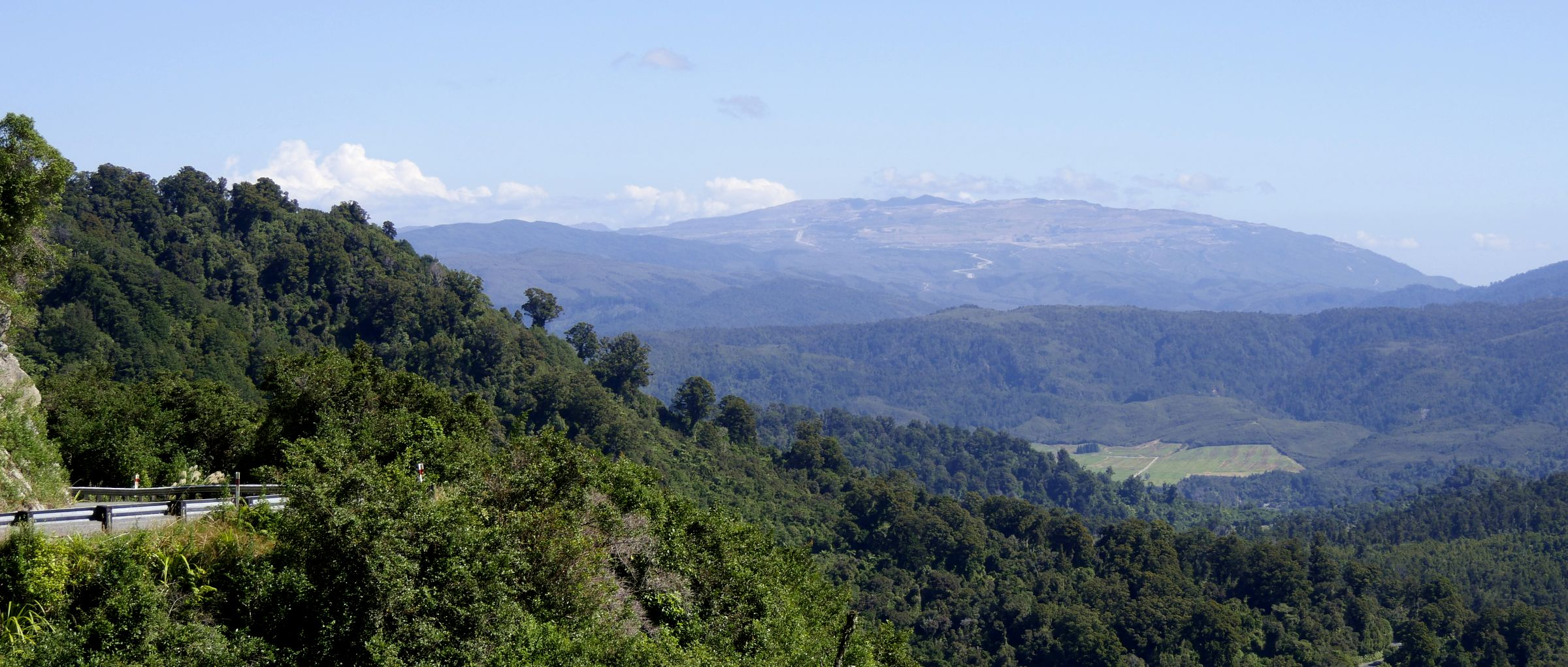 Stockton Opencast Mine, Buller District, West Coast Region, South Islan, New Zealand (view to the south from SH 67 from Karamea to Westport, west of Radiant Range)